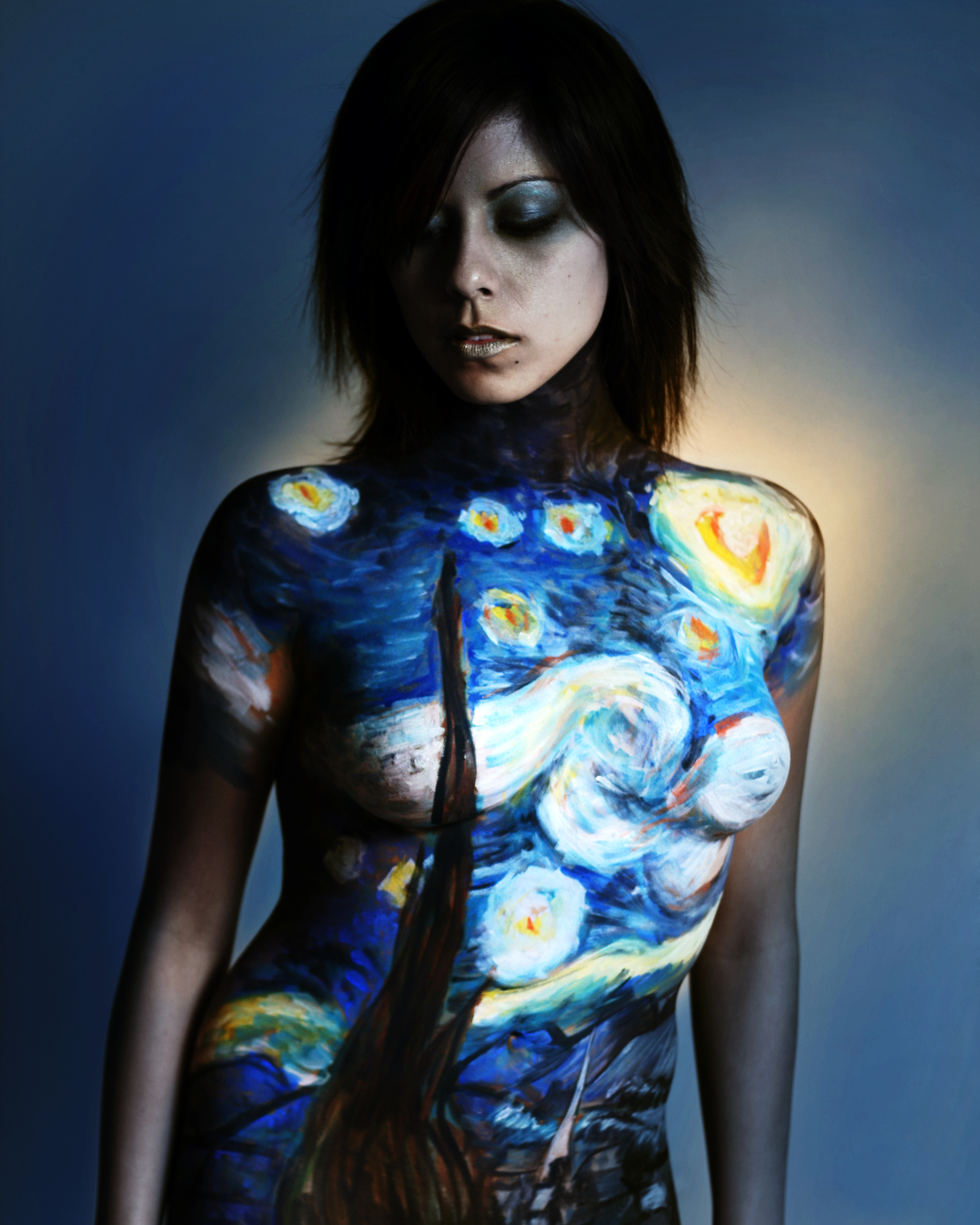 Reproduction of Vincent Van Gogh's Starry Night as body painting by Danny Setiawan